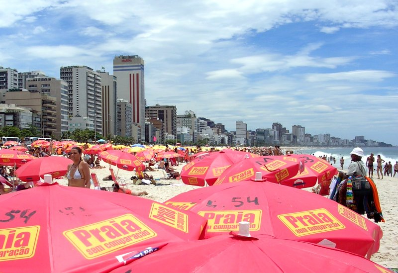 Umbrellas in Leblon beach, Rio de Janeiro, Brazil